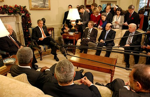 President George W. Bush and Vice President Dick Cheney meet with the Quartet Principals to discuss the Israeli-Palestinian issue in the Oval Office Dec. 20. Attending the meeting are, from left to right, United Nations Secretary General Kofi Annan, Secretary of State Colin Powell, Danish Foreign Minister Per Stig-Moeller, Russian Foreign Minister Sergei Ivanov, European Union Commissioner for External Relations Chris Patten and European Union High Representative Javier Solana.